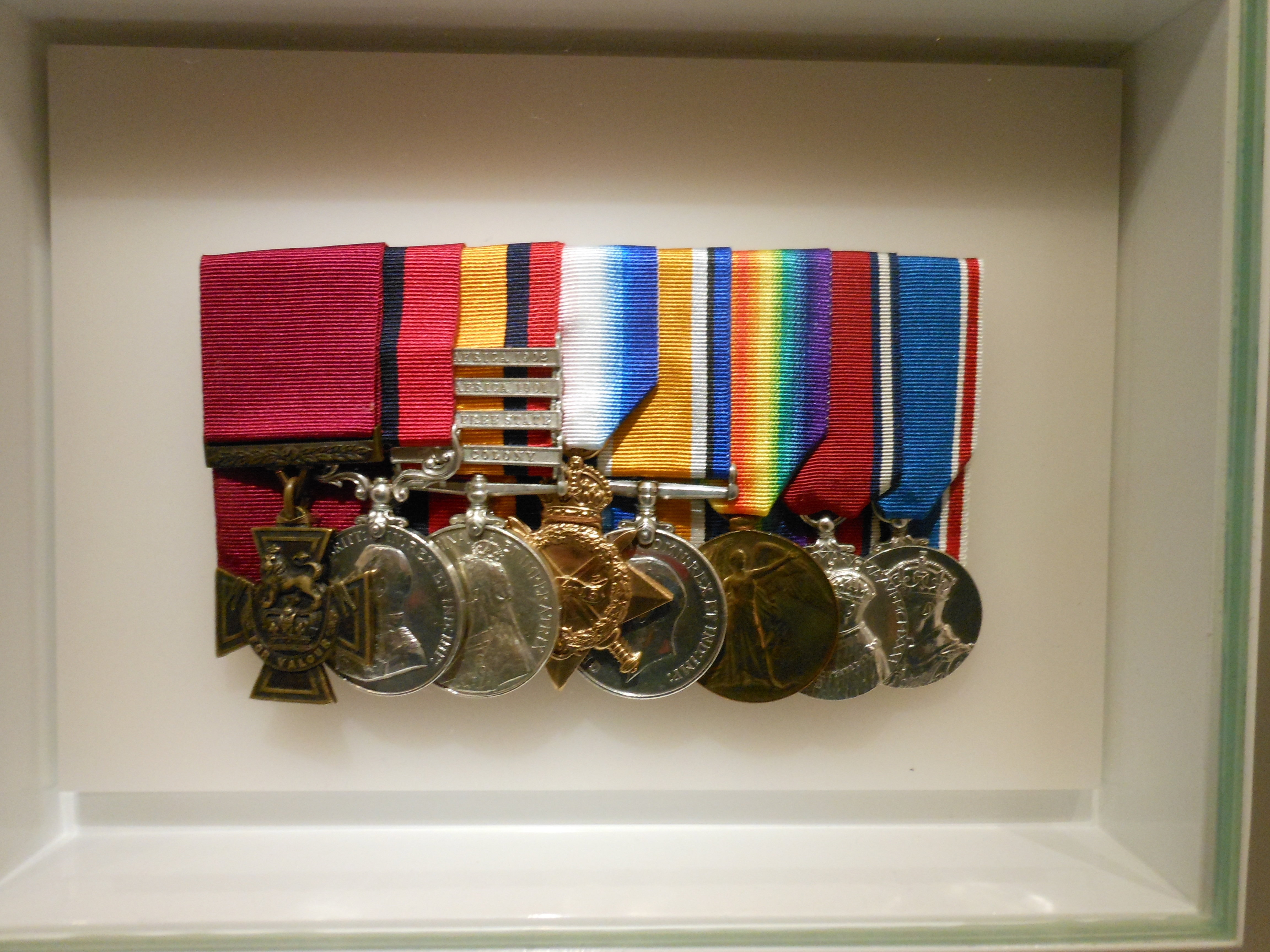 The decorations and medals awarded to John Whittle VC, DCM on display at the Australian War Memorial, Canberra. Whittle was an Australian recipient of the Victoria Cross, decorated for his actions in 1917 during the First World War.